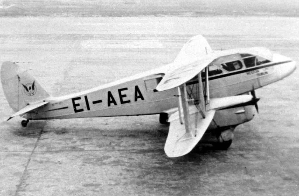 De Havilland Dragon Rapide of Weston Ltd, Weston Aiport, Dublin, at Liverpool (Speke) Airport in 1949